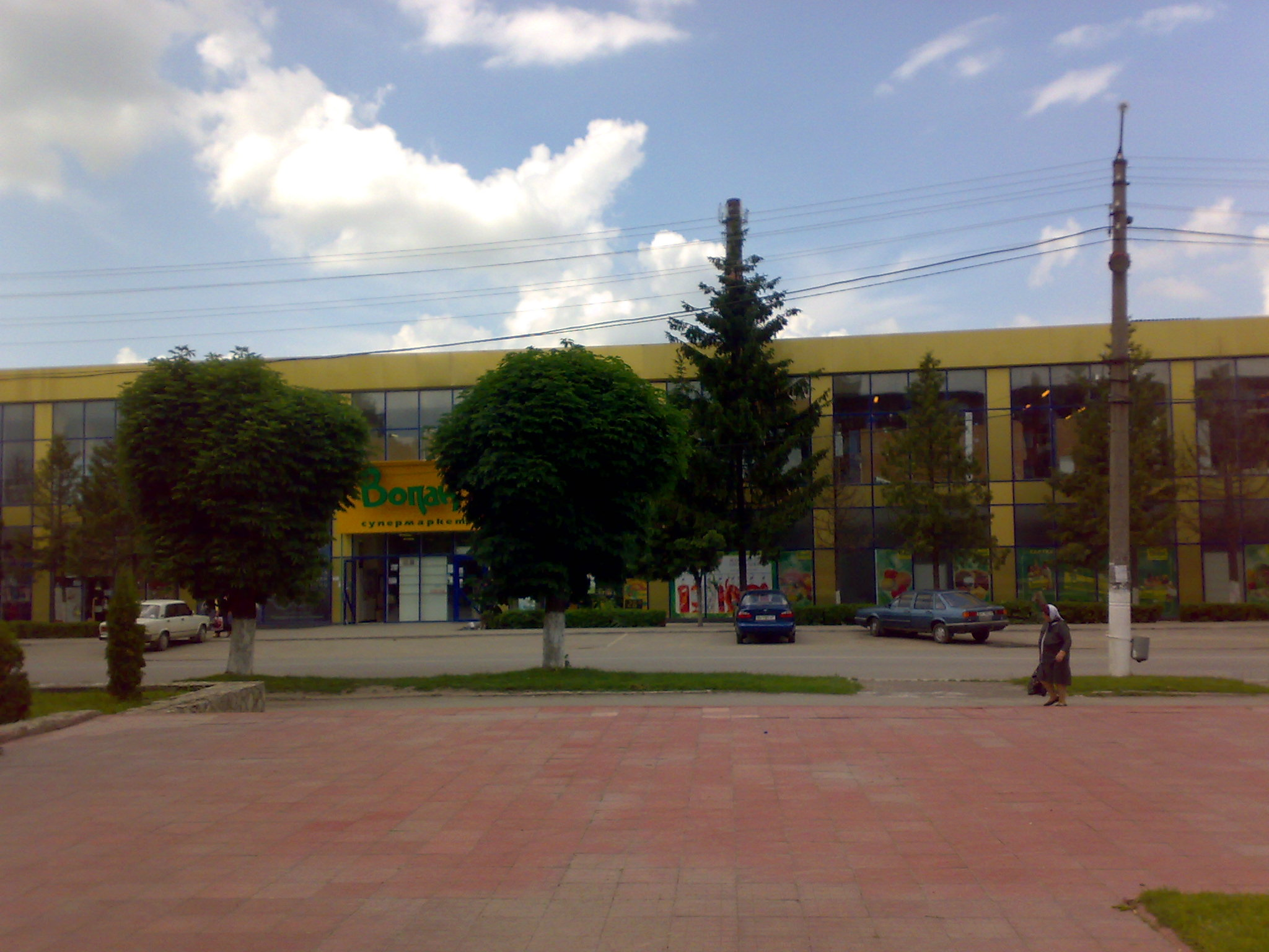 Building of the former cloth factory in Dunaivtsi. Nowadays it is shopping center.